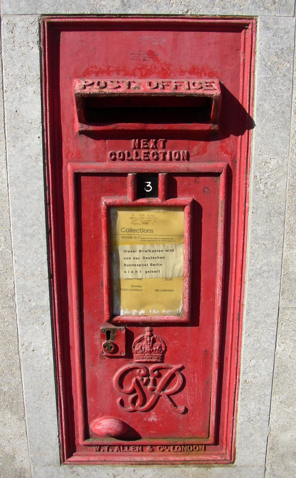 Mailbox in Berlin-Wilmersdorf, Germany